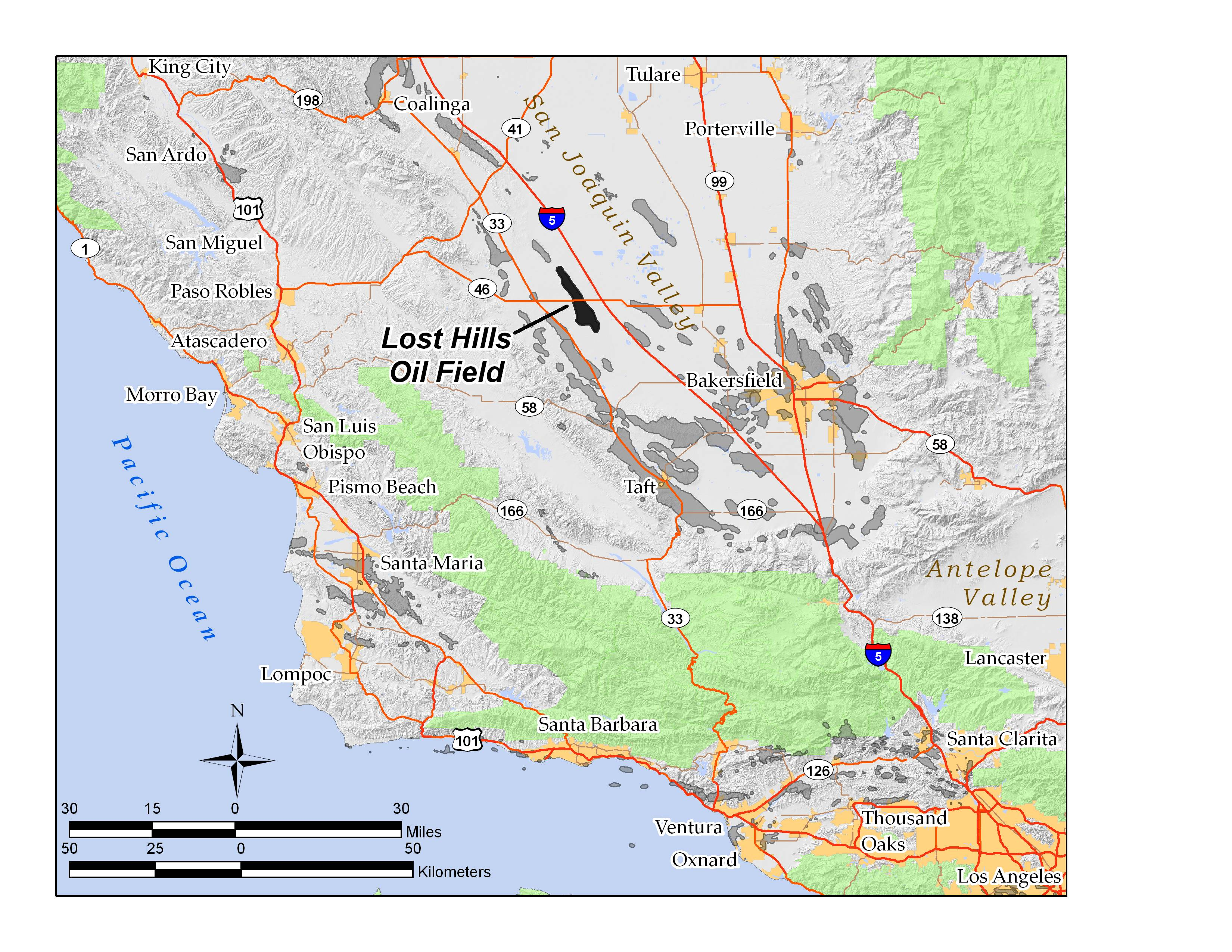 Map of Lost Hills Oil Field, by User:Antandrus, using ArcGIS 9.2. All data shown on this map is in the public domain (US Census, USGS, etc.)